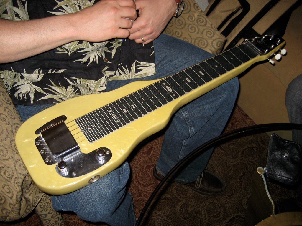 Gerald Ross' Fender Champion lap steel 26th TSGA Jamboree - 18